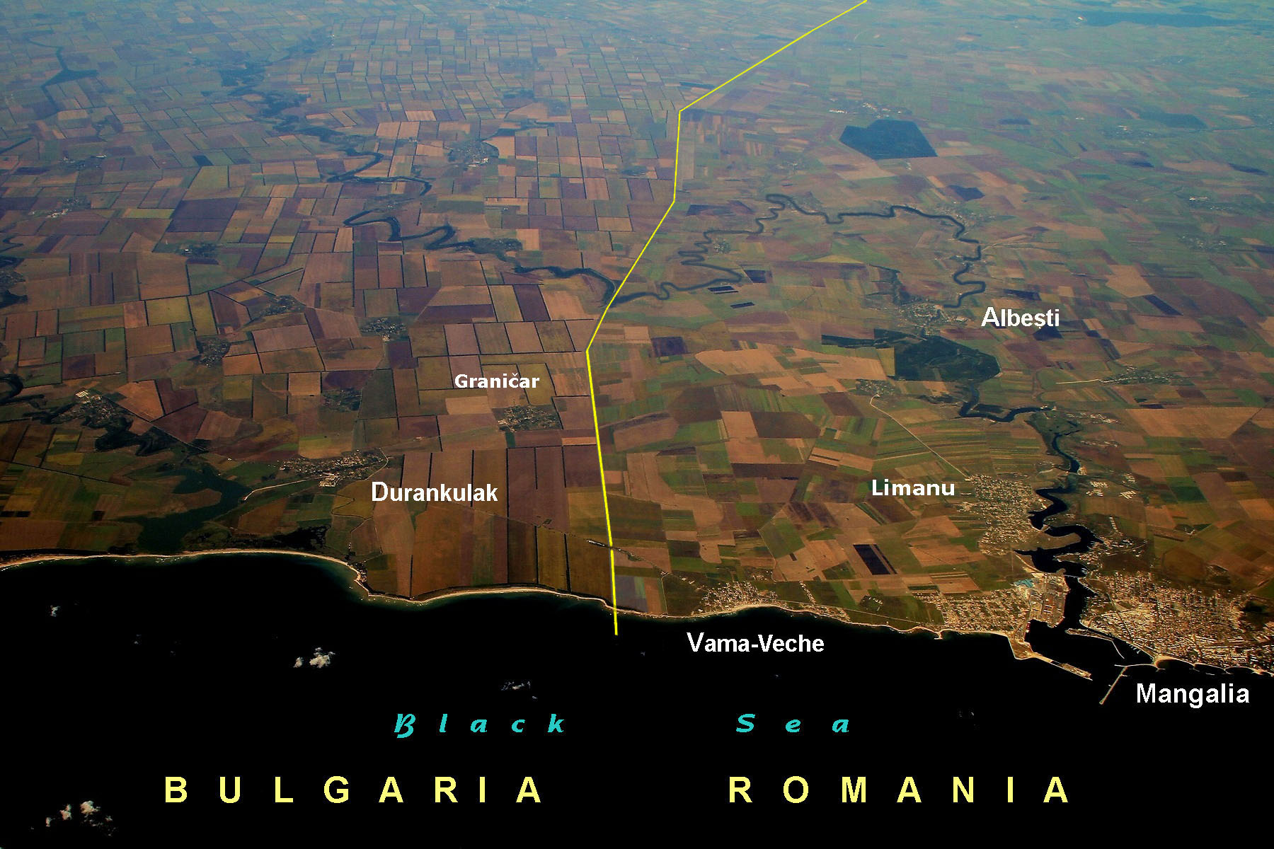 Bulgarian-Romanian border from air with a clearly visible difference in the size and shape of fields in both countries.